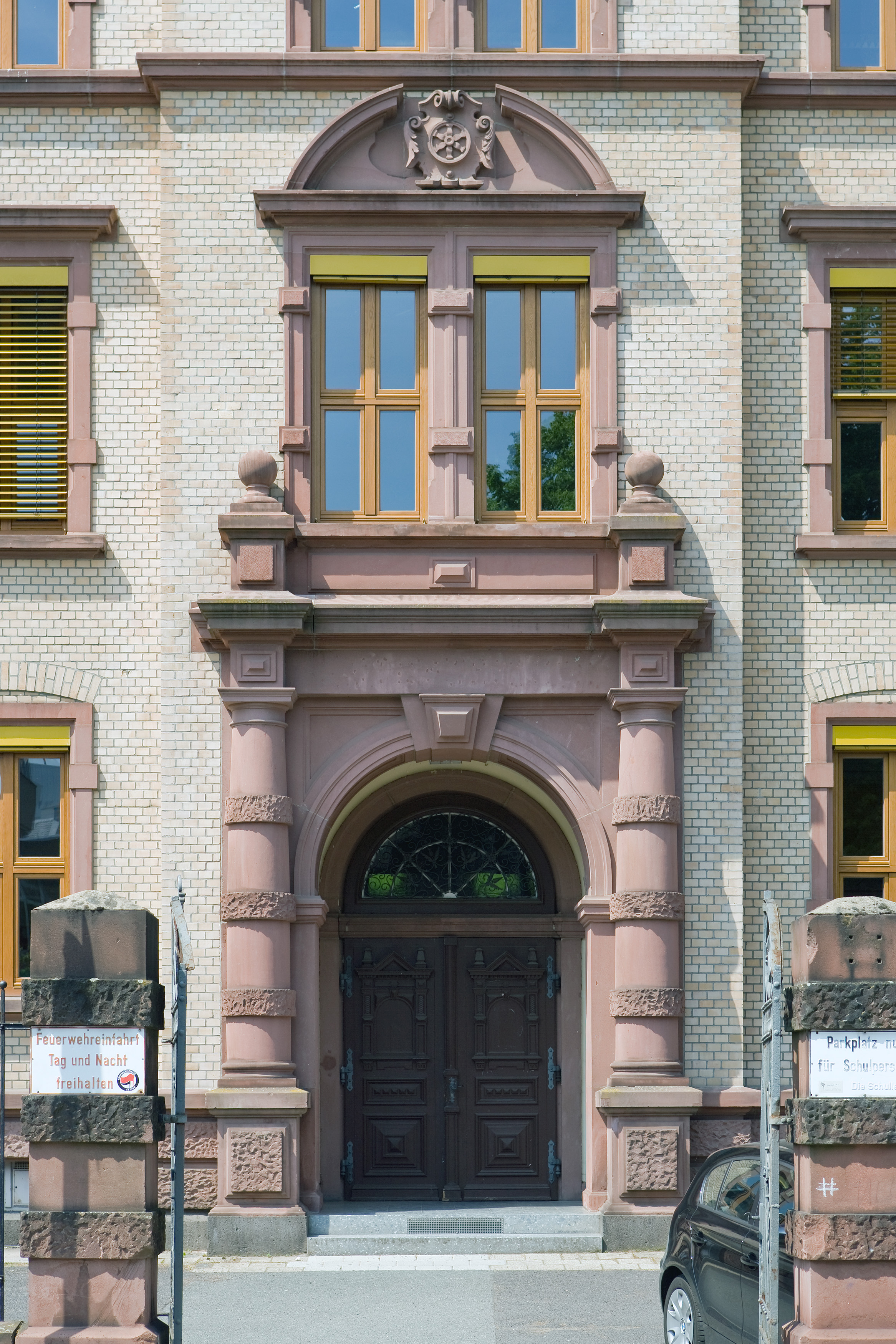 Frankfurt on the Main: Robert-Koch-Schule (Robert Koch School) (Luciusstrasse [Lucius Street] 2), detail of the portal as seen from the south